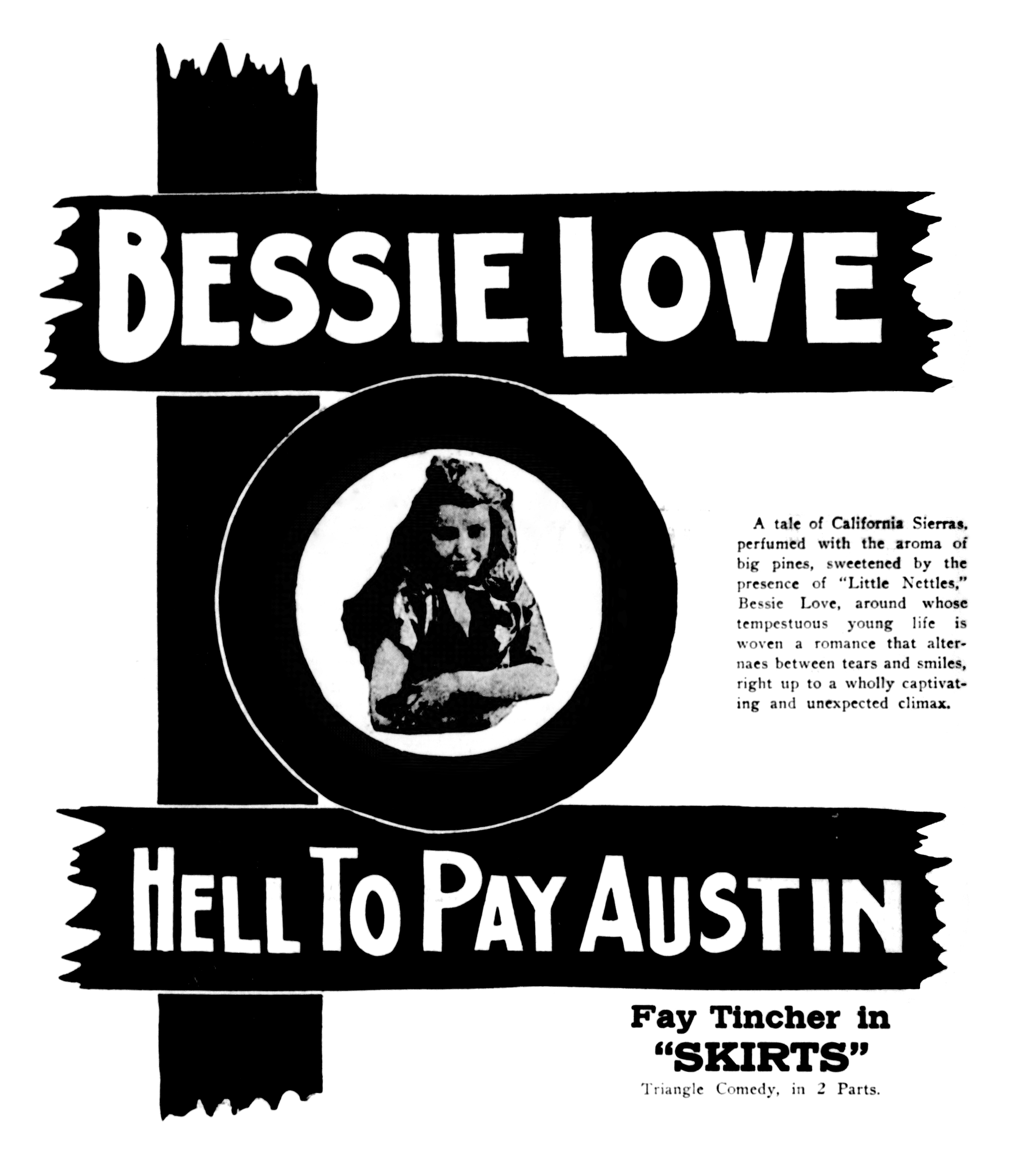 Hell-to-Pay Austin is a 1916 American silent comedy-drama film directed by Paul Powell and starring Wilfred Lucas in the title role, along with Bessie Love, Eugene Pallette and Mary Alden. From a newspaper.